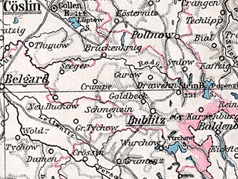 Detail from a map of Pomerania.